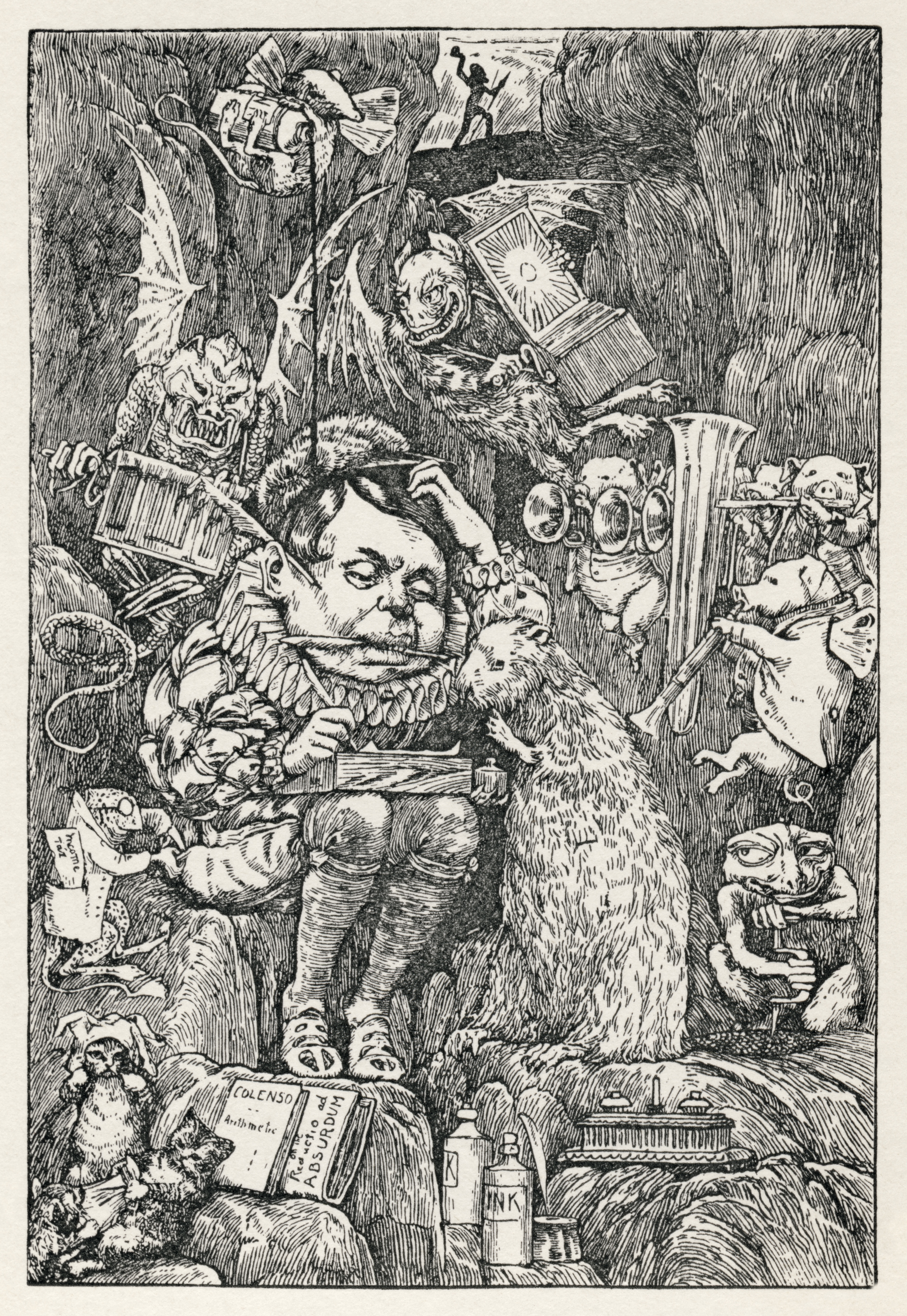 Seventh of Henry Holiday's original ilustrations to "The Hunting of the Snark" by Lewis Carroll. From Fit the Fifth: The Beaver's Lesson. The Butcher and Beaver hear the song of the Jubjub bird, and this causes the Butcher to be reminded of his childhood, and begin a lengthy lesson to he Beaver. Afterwards, they become friends. As for the strange creatures: The Beaver brought paper, portfolio, pens, And ink in unfailing supplies: While strange creepy creatures came out of their dens, And watched them with wondering eyes. So engrossed was the Butcher, the heeded them not, As he wrote with a pen in each hand, And explained all the while in a popular style Which the Beaver could well understand. The rest of the lesson is pretty much complete nonsense.